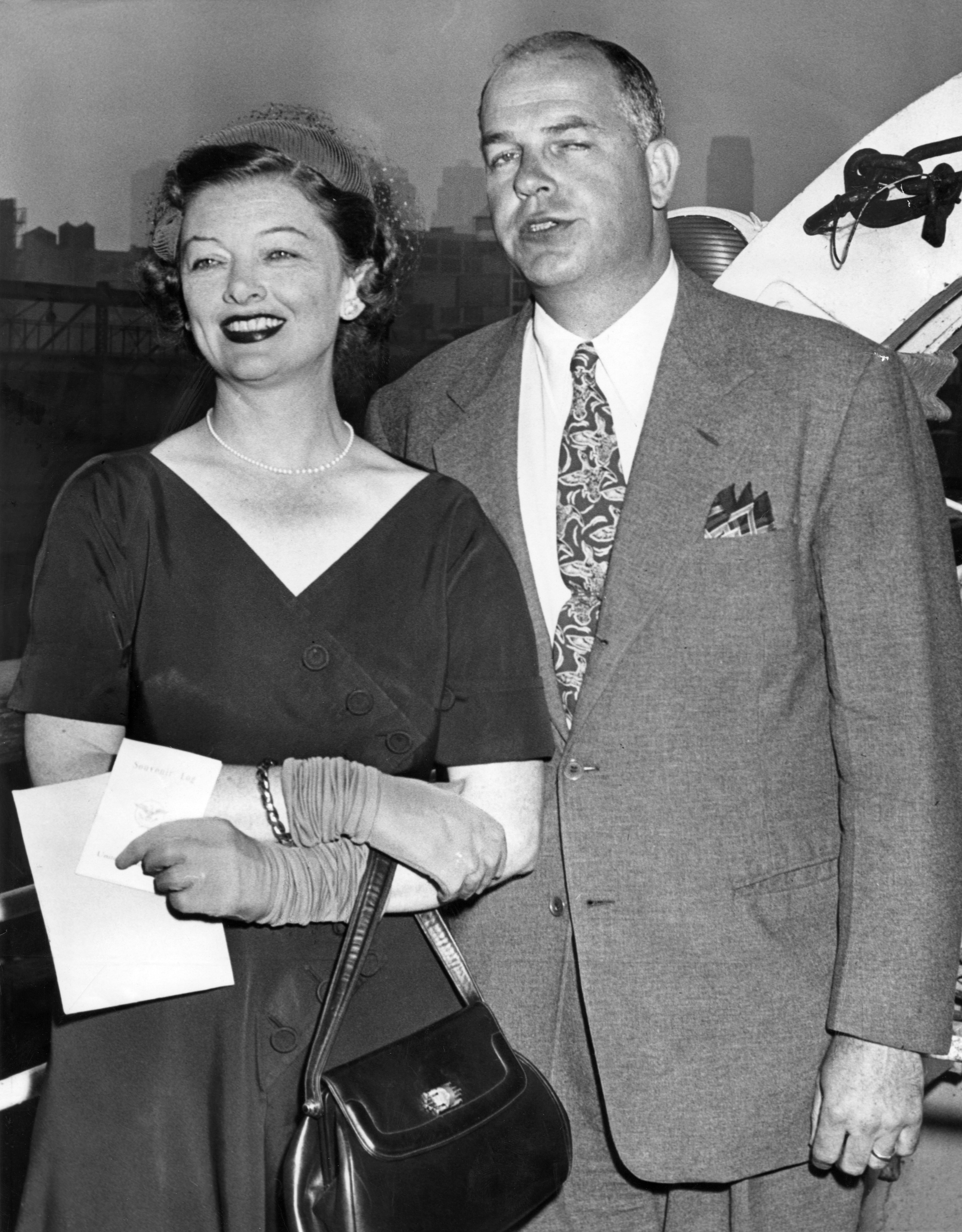 Photograph of Myrna Loy and her husband Howland H. Sargeant Snipe attached to reverse reads as follows: Myrna Loy and husband return from UNESCO conference New York ... Screen star Myrna Loy and her husband Howland H. Sergeant [sic] are pictured aboard the SS America, flagship of the United States Lines, on their return from Europe. Both were among the U.S. delegates to the UNESCO (United Nations Economic, Social and Cultural Organization) conference. Sergeant was chairman of the group. The conference was held in Paris.